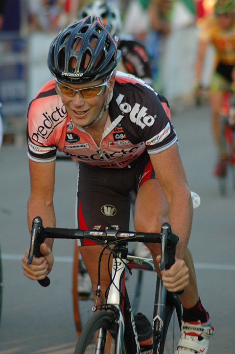 Chris Horner 2007